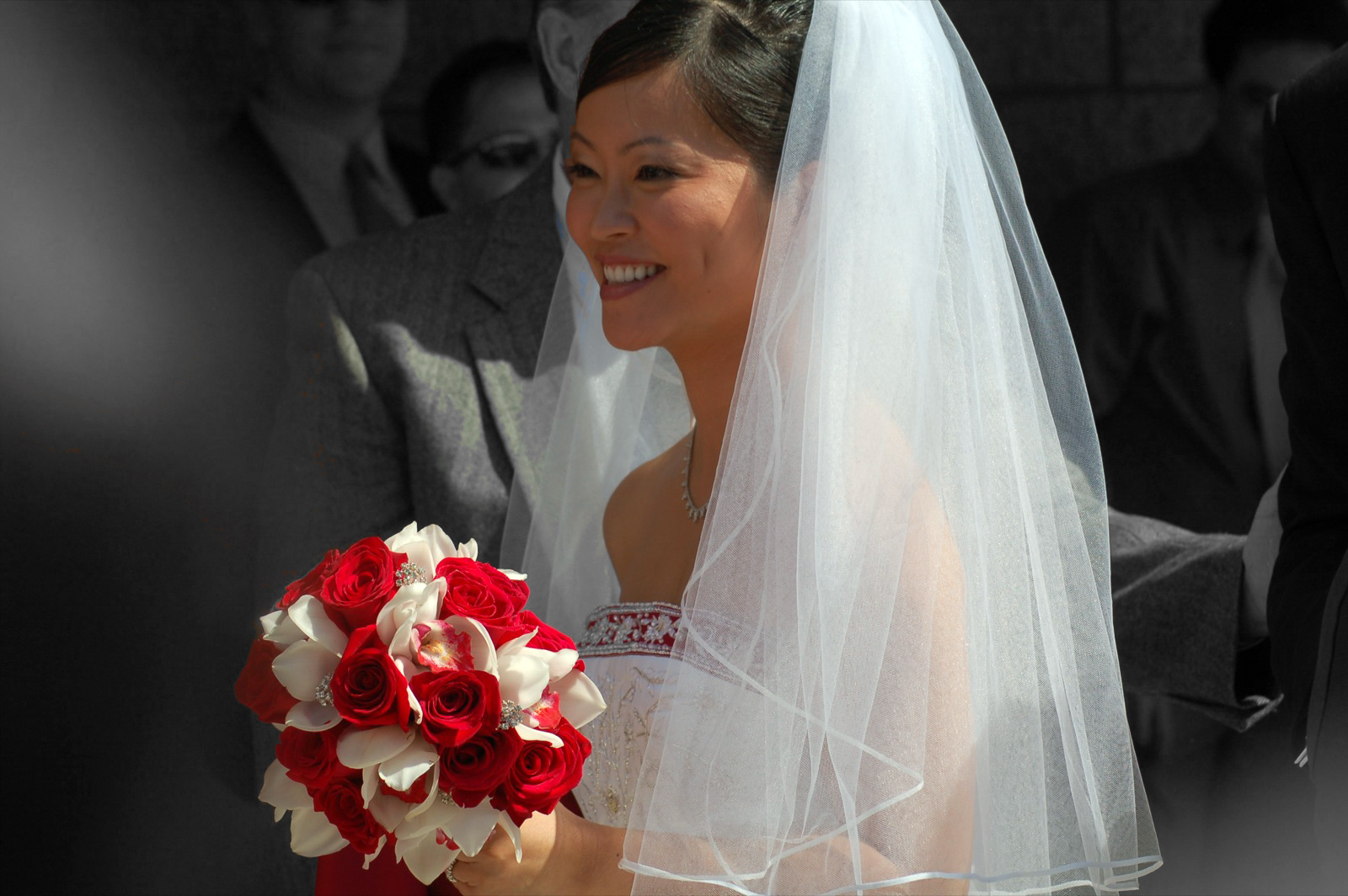 Hull Tran of Vietnamese descent on her wedding day infront of Saint Edward the Confessor Catholic Church in Dana Point, California